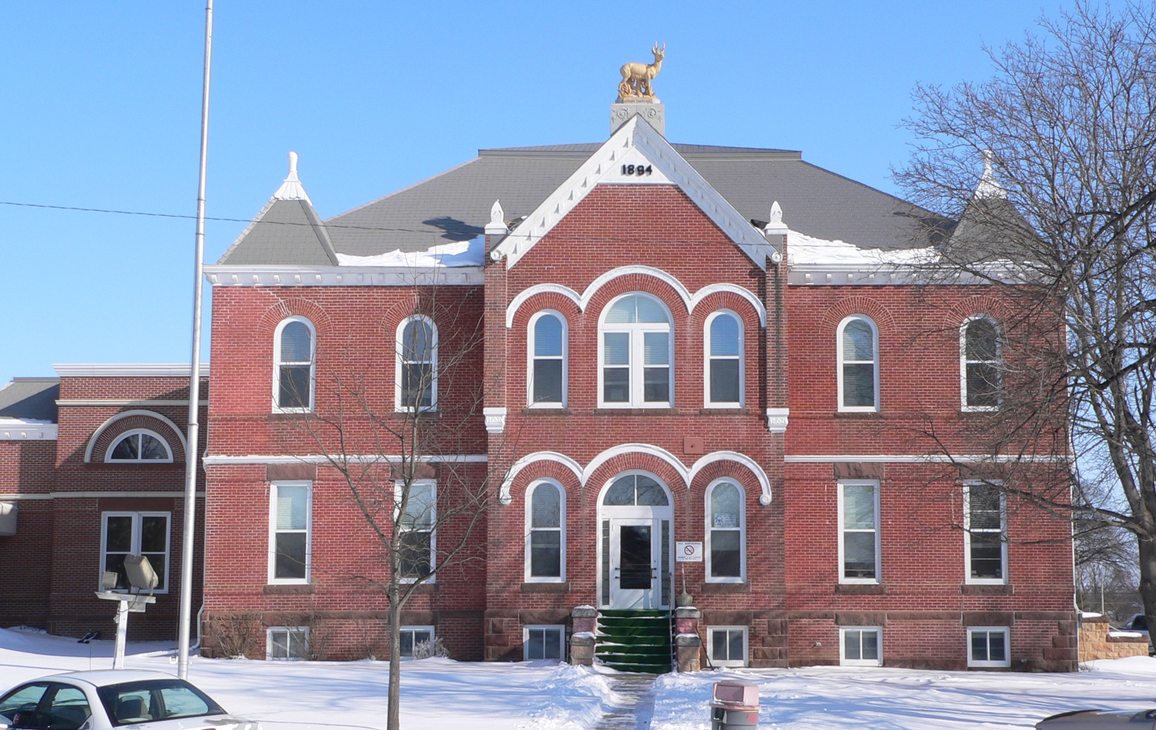 Antelope County Courthouse in Neligh, Nebraska; seen from the west. The building was designed in Romanesque Revival style and built in 1894. The portion to the left of the flagpole is a more recent addition. The sculpted quadruped atop the roof above the west entrance is a pronghorn, the county's namesake. The building is listed in the National Register of Historic Places.